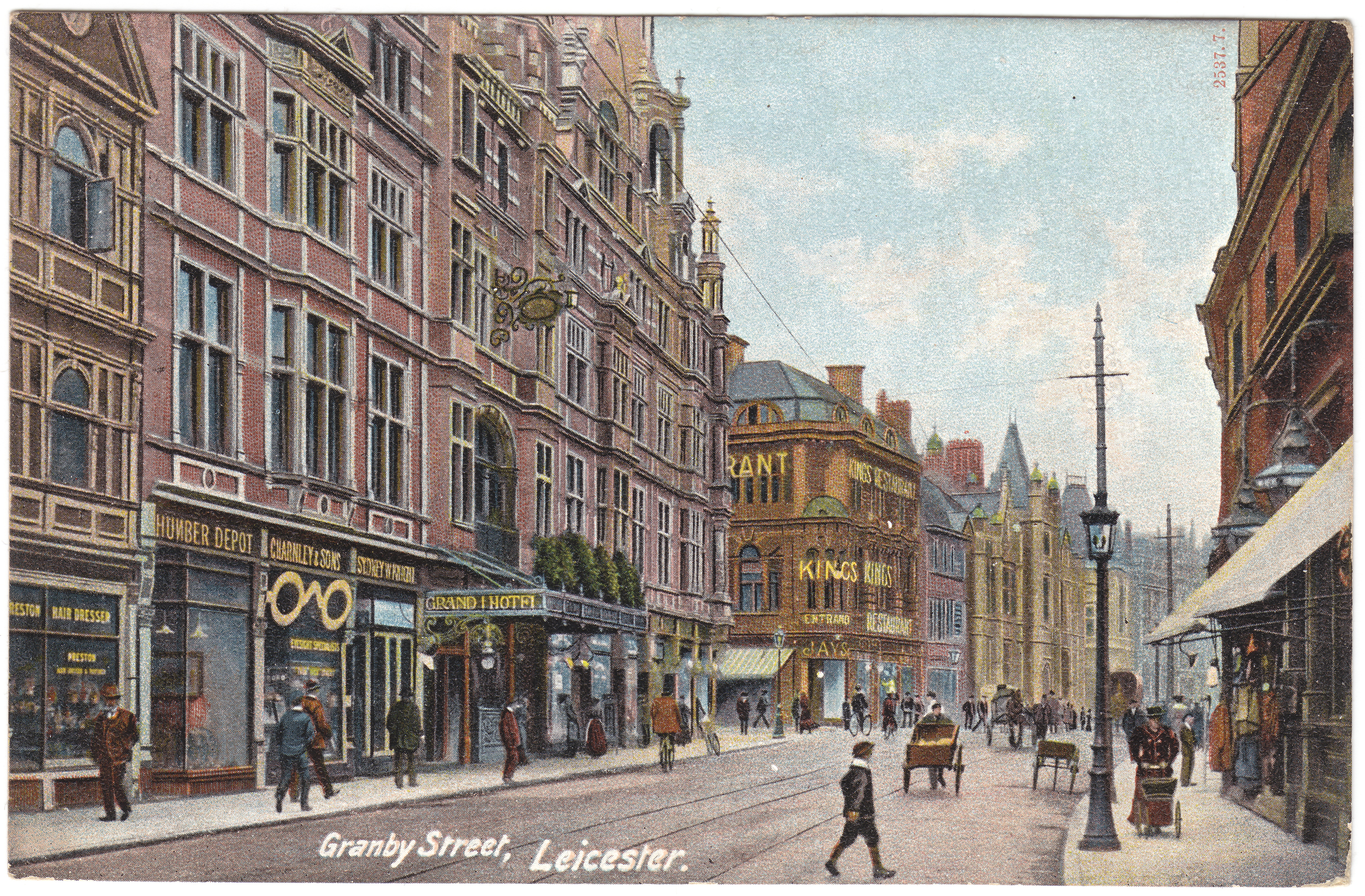 Granby Street, Leicester, in 1906 or earlier.